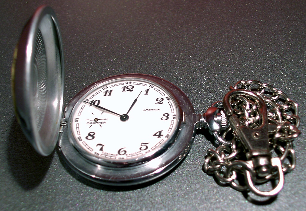 A Molnija pocket watch with 15 ruby jewels. On the front, there's a portrait of Vladimir Putin along with the text "Vladimir Vladimirovich Putin, President, Russia" (in cyrillic). Picture taken and released into the public domain by User:Kallemax.